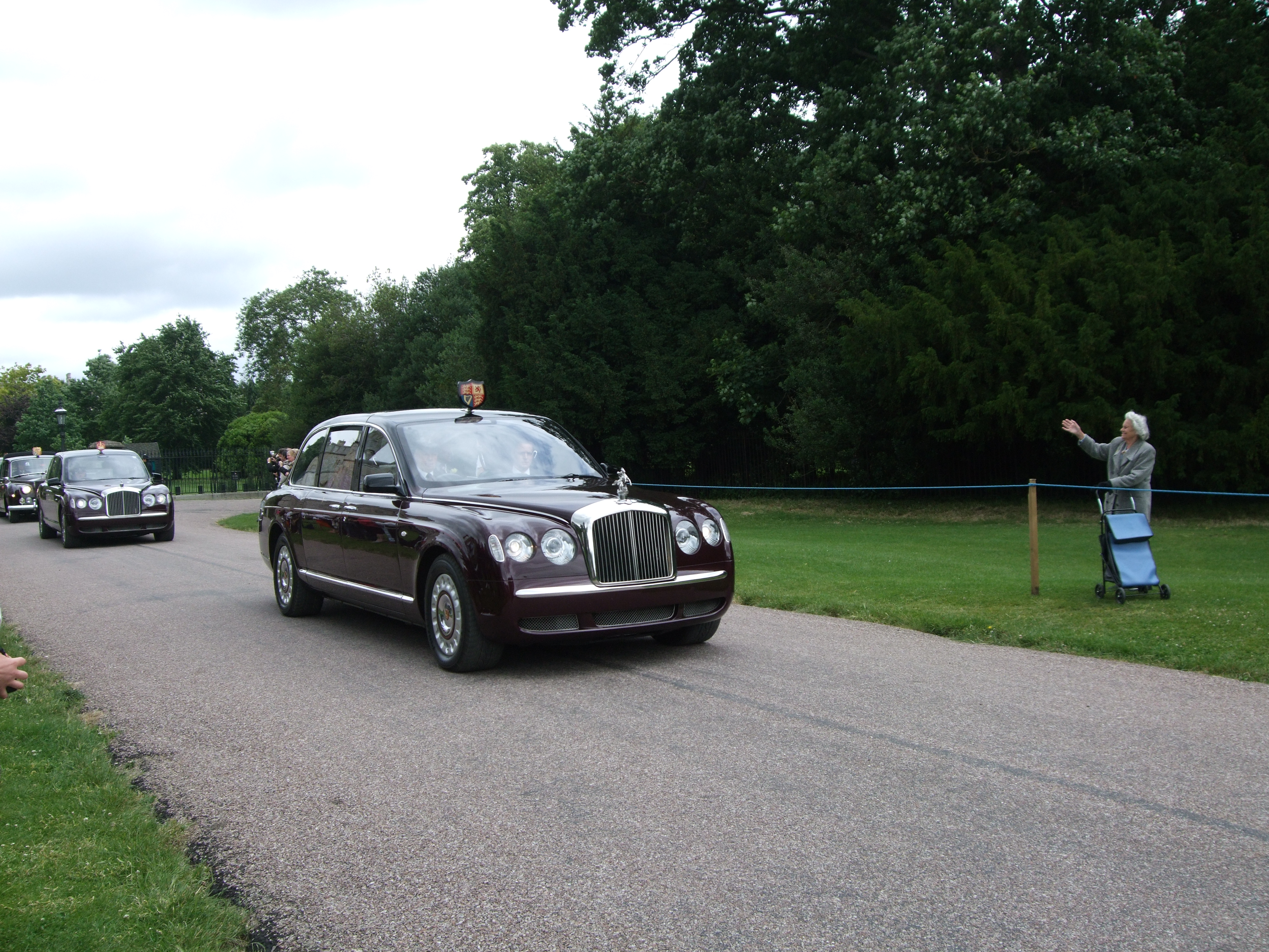 Royal Bentley